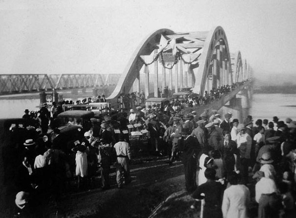 Inauguration of the Neuquen-Cipolletti bridge, over the Río Neuquén.